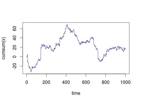 Stochastic processes with random increments from a symmetric stable distribution with α=1.7, mean=0 and variance=1